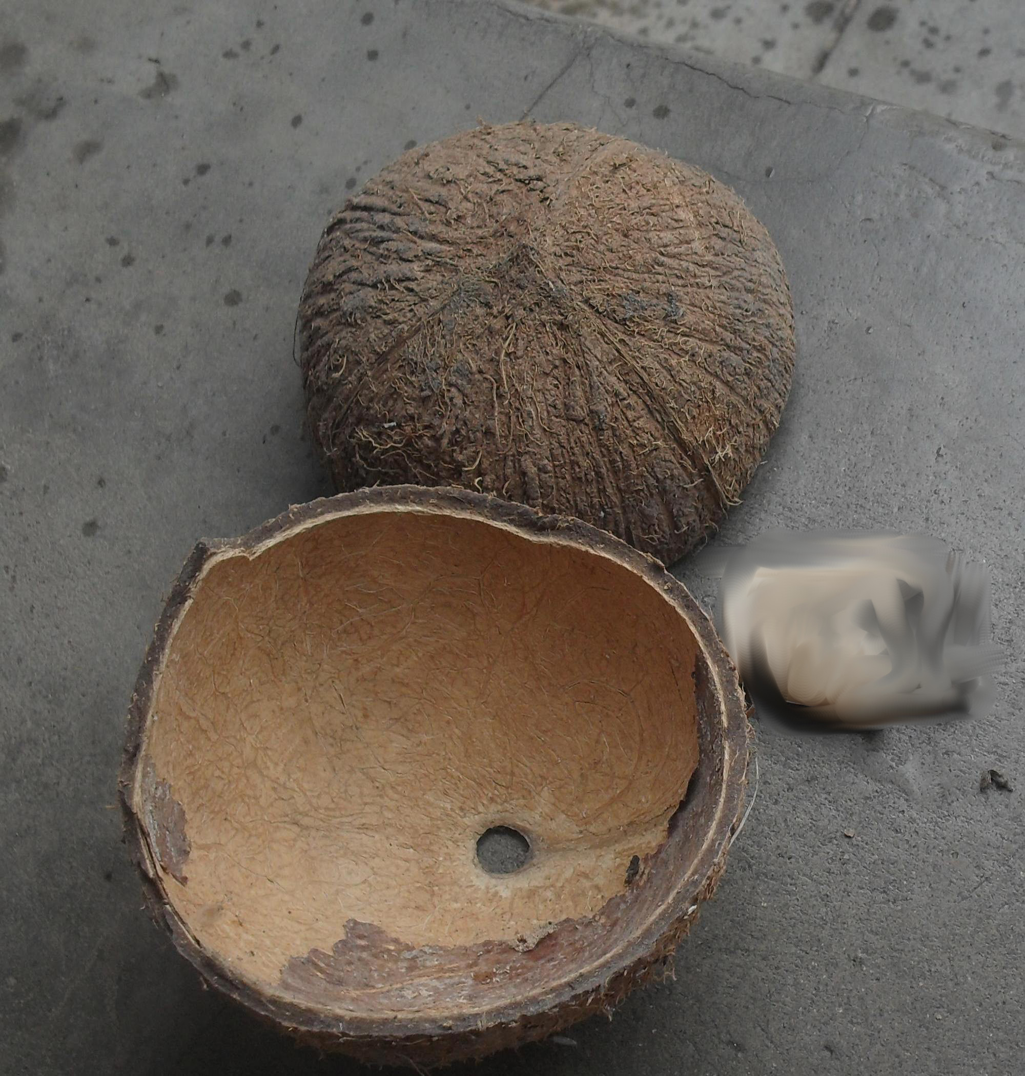 coconut shell of Tamil Nadu Viz of 'kot.taan.cu. chi'